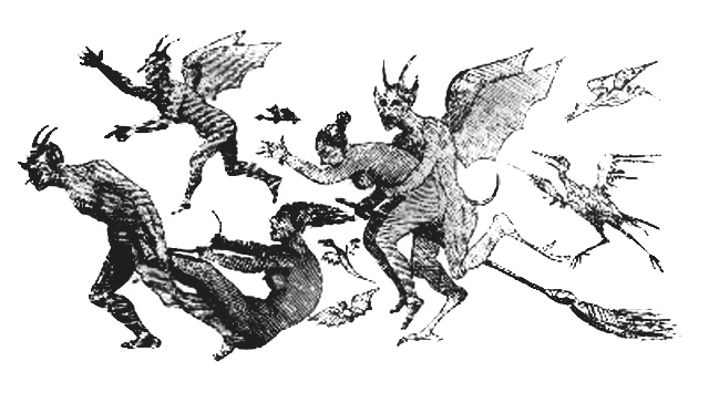 Lutins